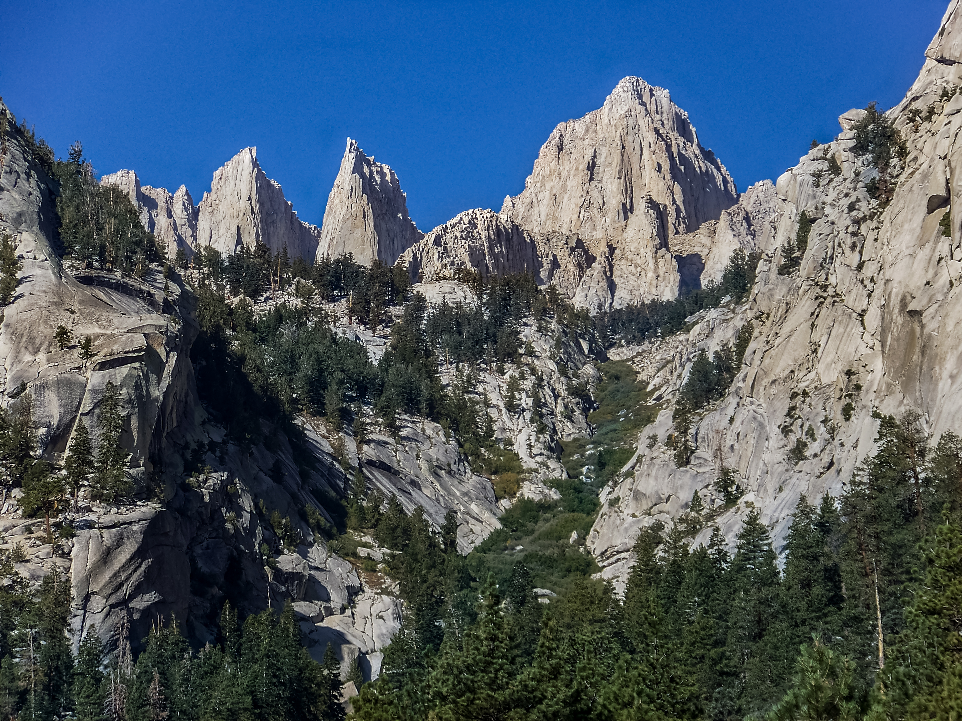 Photo of Mount Whitney (summit on right) taken from near the Whitney Portal trailhead. Keeler Needle is to its left, and Crooks Peak is to the far left.